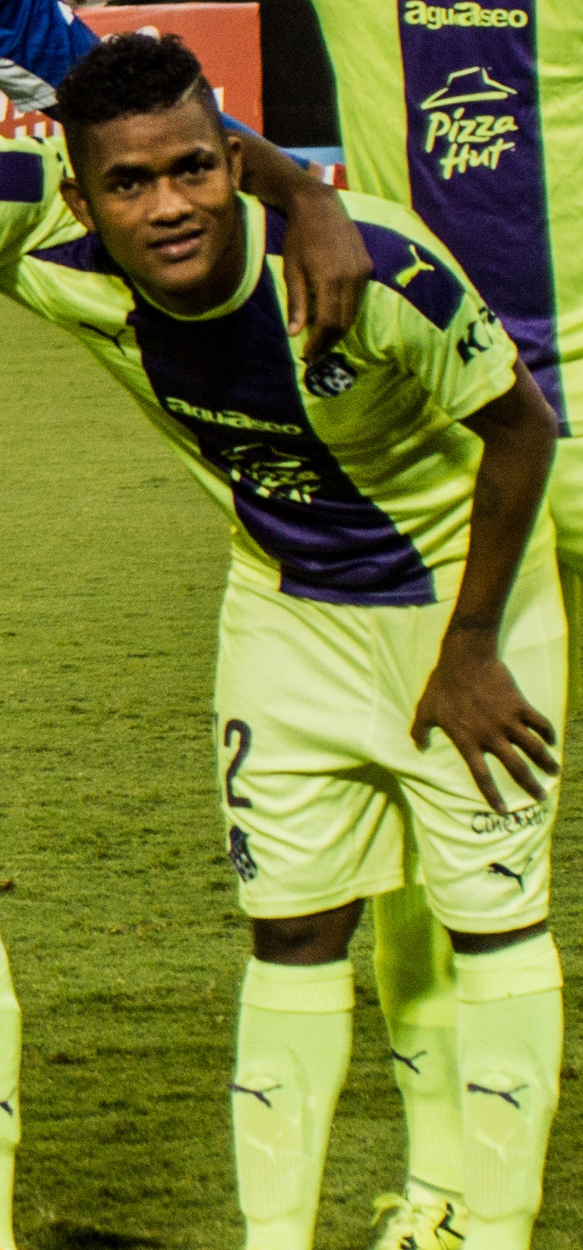 2015/16 Scotiabank CONCACAF Champions League (DC United vs. Deportivo Arabe Unido) (Sept. 2015) José González Joly